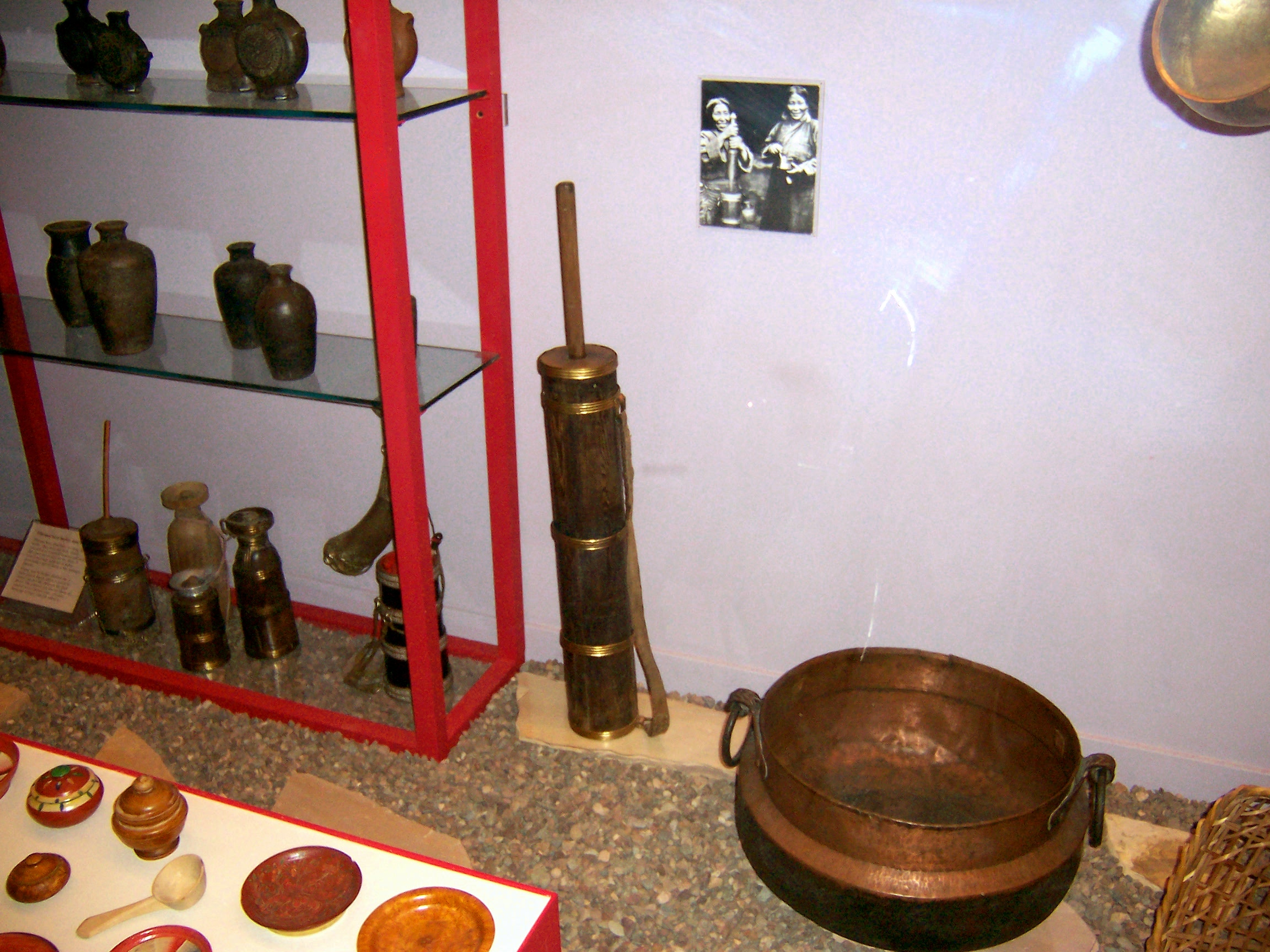 Tibetan kitchen items: butter churn, cooking pot, bowls, spoons, can be seen at the Field Museum.